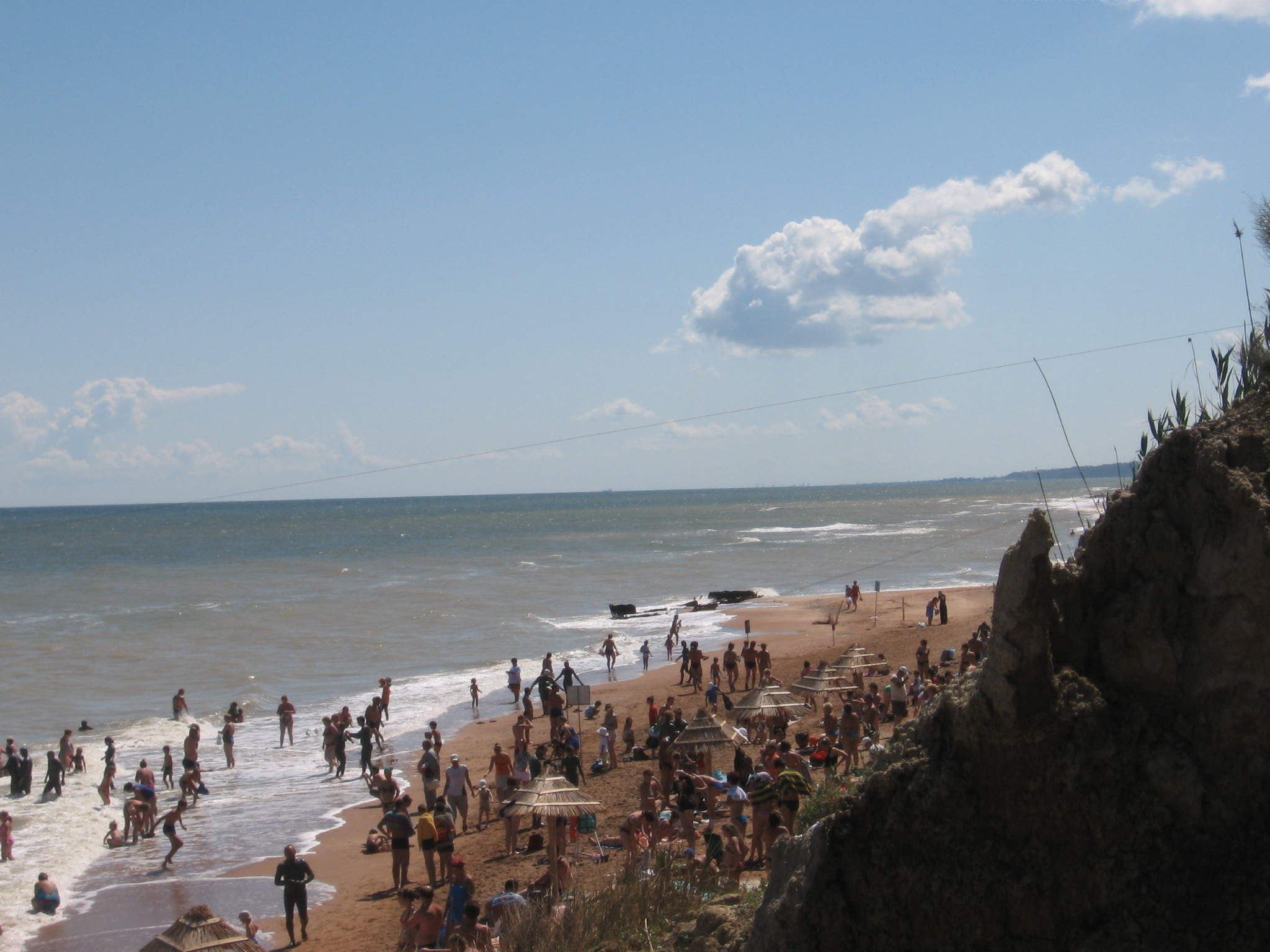 Asov Sea shore.